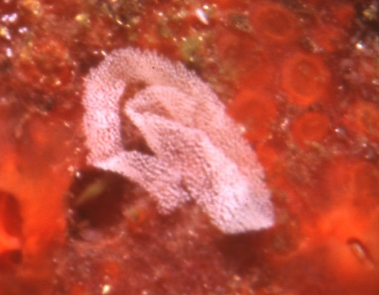 A photograph of the egg ribbon of the candelabra nudibranch, Eubranchus sp., taken at Seal Point in False Bay in 10m of water using a Nikonos V camera. Diameter of ribbon approx 5mm.